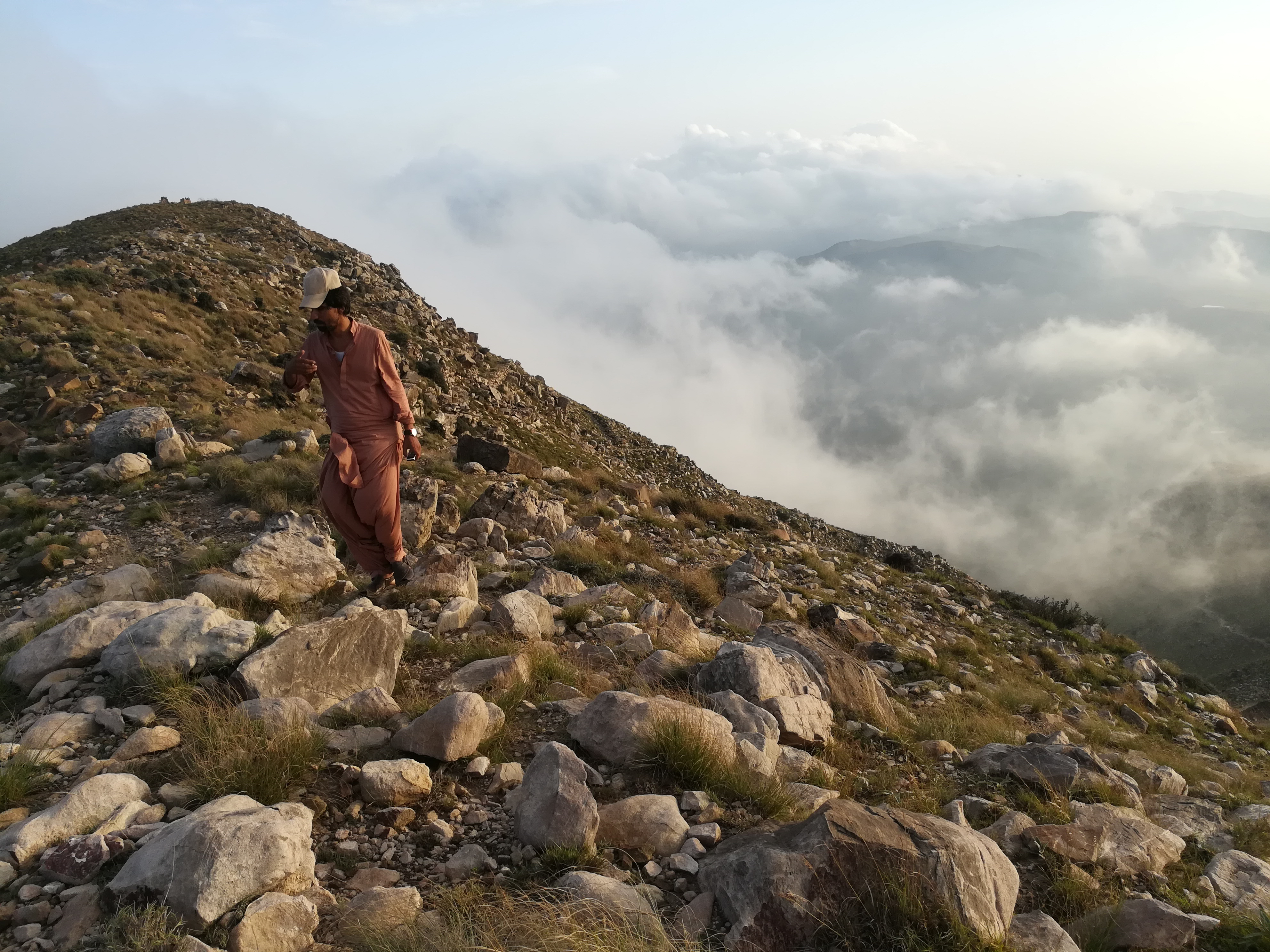 View from yak bhae top